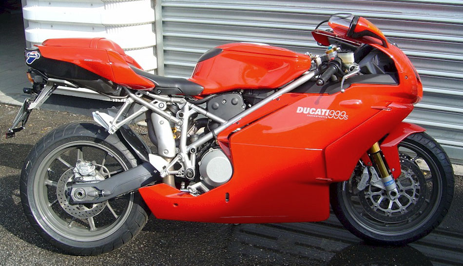 Ducati 999s (2004)